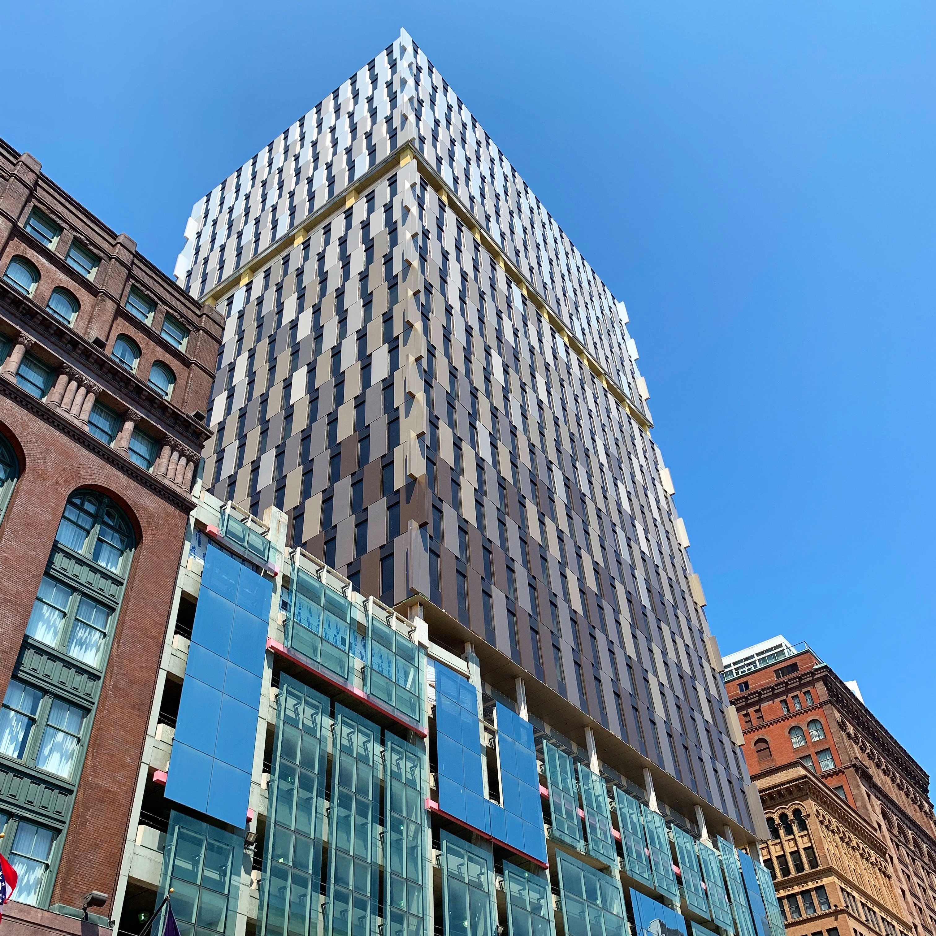 Completed building after Grand Opening in November, 2019.